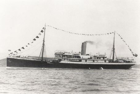 SS Mendi, sunk on 21 February 1917 with the loss of 30 British and Sierra Leonean crew and 616 troops, most of them men of the South African Native Labour Corps (SANLC)